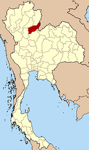 Map of Thailand highlighting Uttaradit province